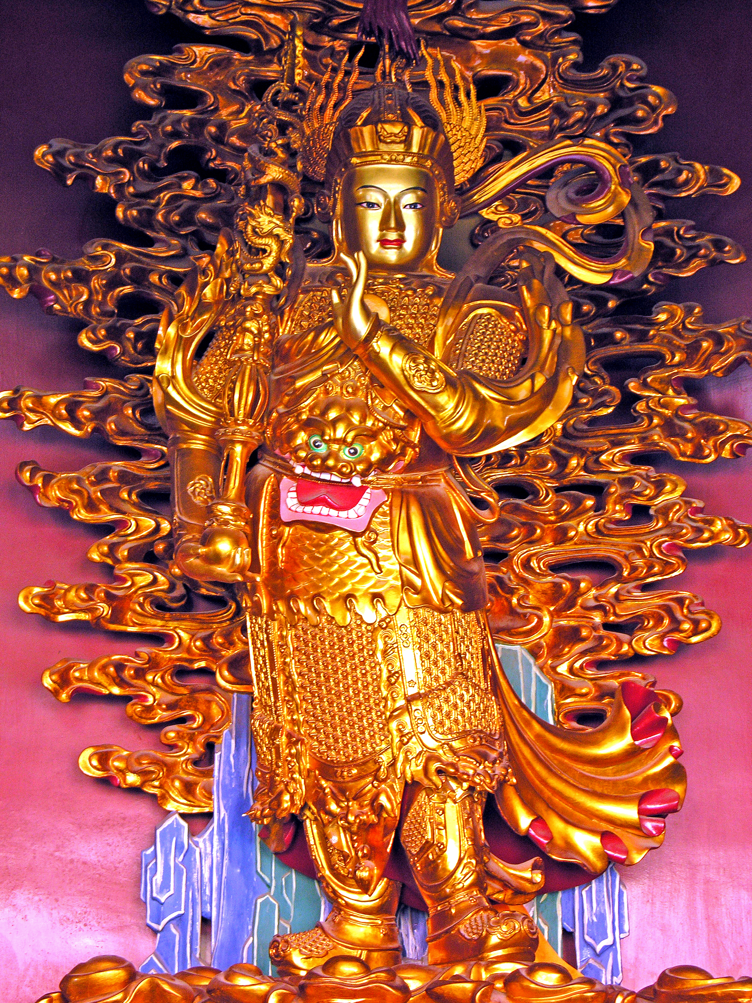 Lama Temple Beijing (Yonghegong), or Palace of Peace and Harmony Lama Temple or Yonghegong Lamsery, a renowned lama temple of the Yellow Hat Sect of Lamaism. Beijing, China Behind the shrine of Maitreya stands the statue of Weituo facing backwards to a large courtyard. He was appointed protector of Buddhism and ranked first among the 32 guardian generals.